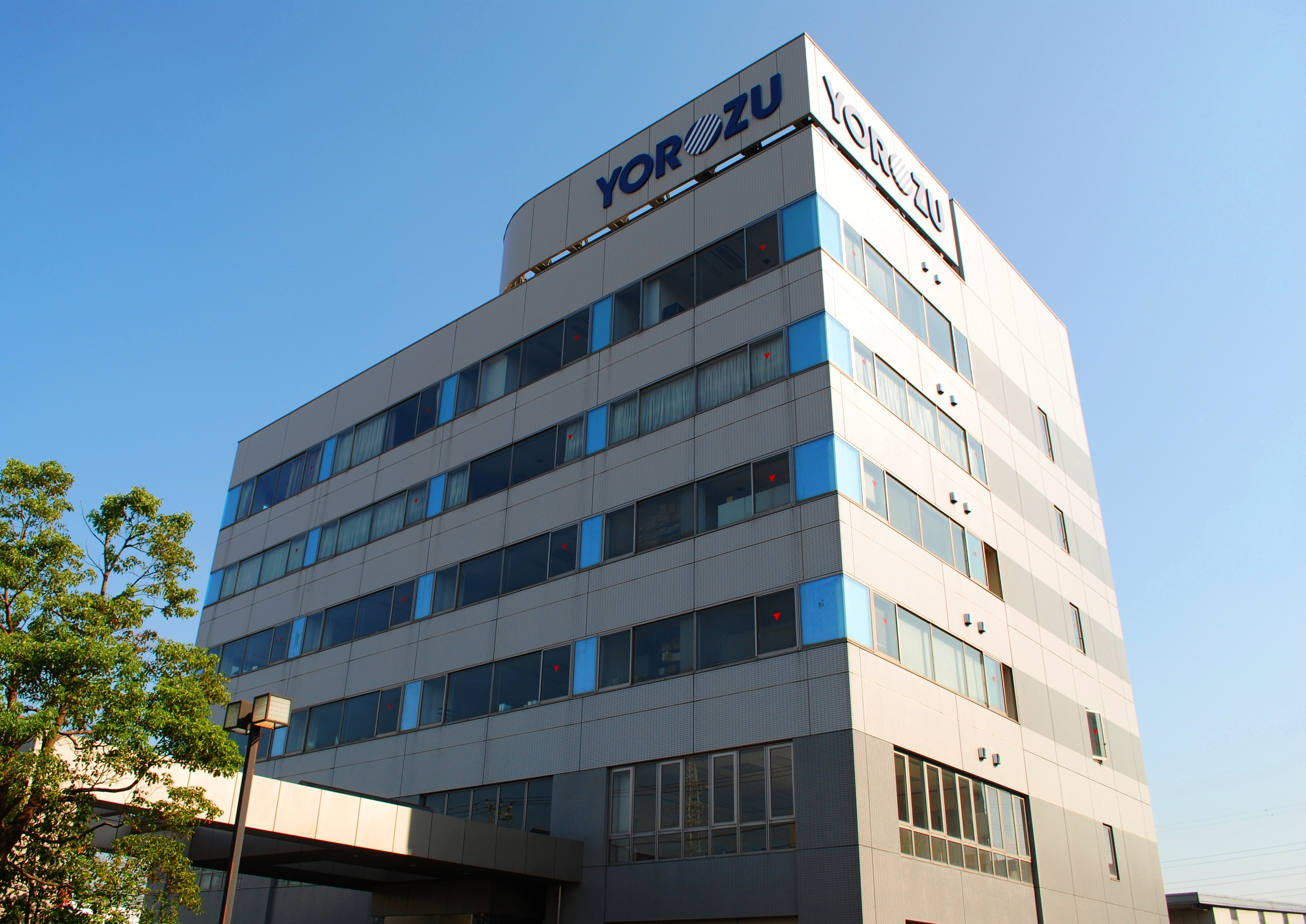 Head office of YOROZU